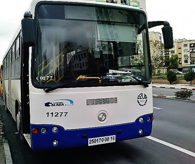 evolution on the snvi 100 v8 (pr 100 berliet ) but with a 6 inline engin